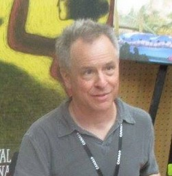 Rich Moore at Annecy Festival of Animation